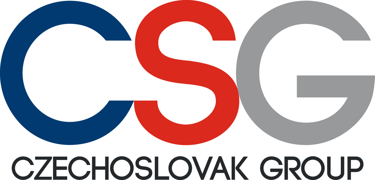 CZECHOSLOVAK GROUP is a holding enterprise promoting activities of a group of industrial and trade companies from the fields of defence and civilian industries, residing mainly in the Czech and Slovak Republic.